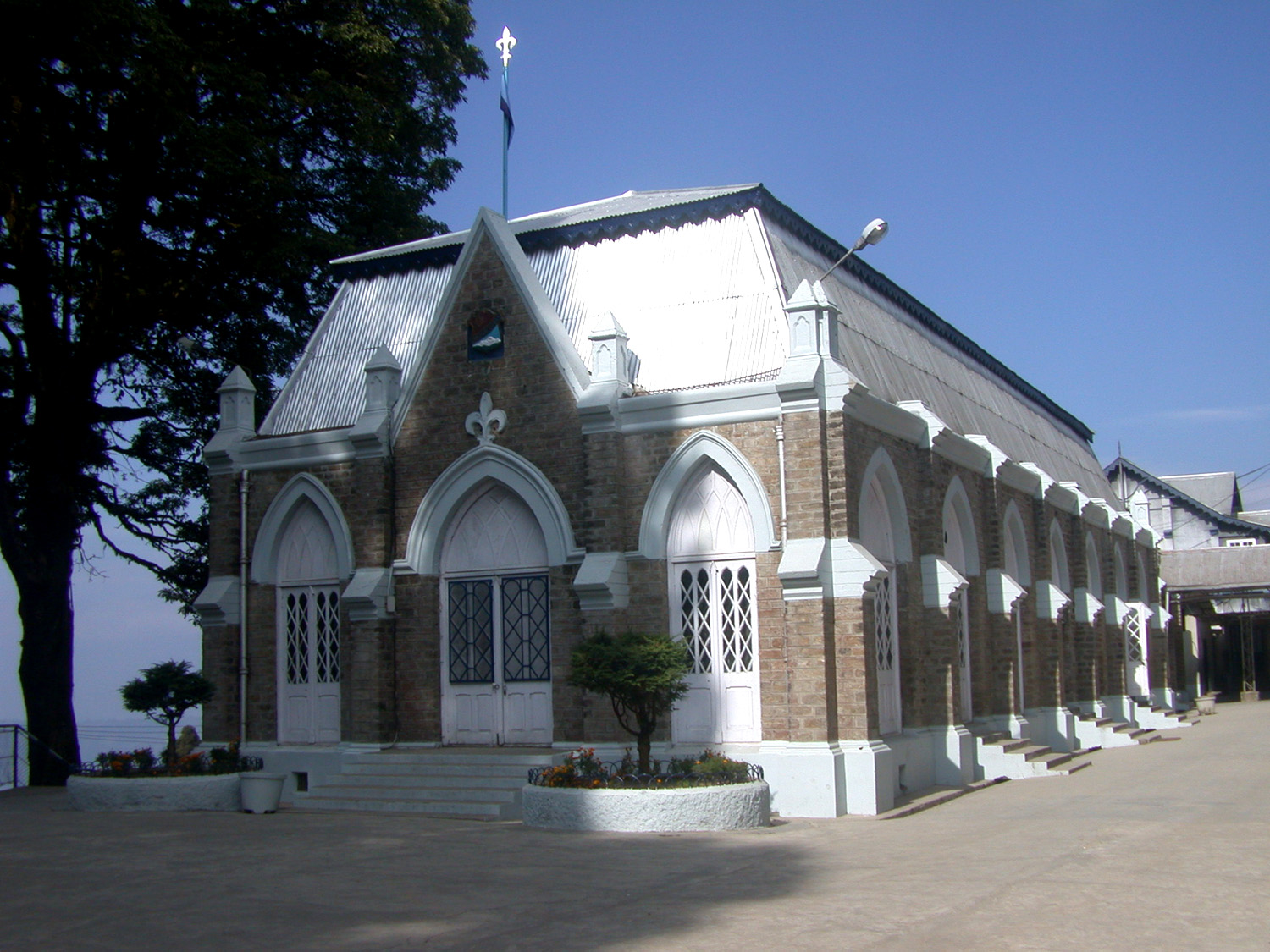 Fraser Hall, St. Joseph's School, North Point, Darjeeling